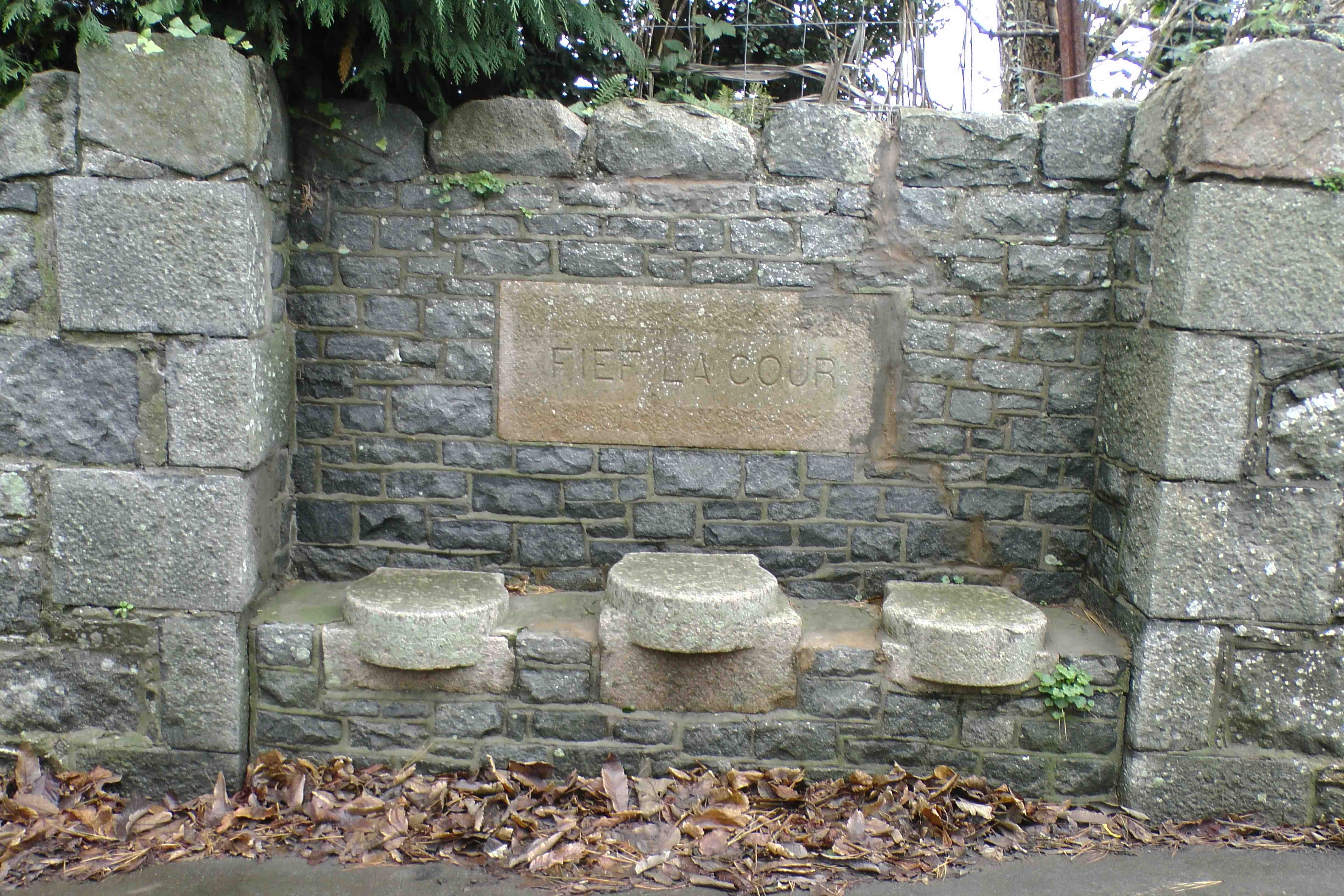 Court seats in Rue Des Vallees, Guernsey